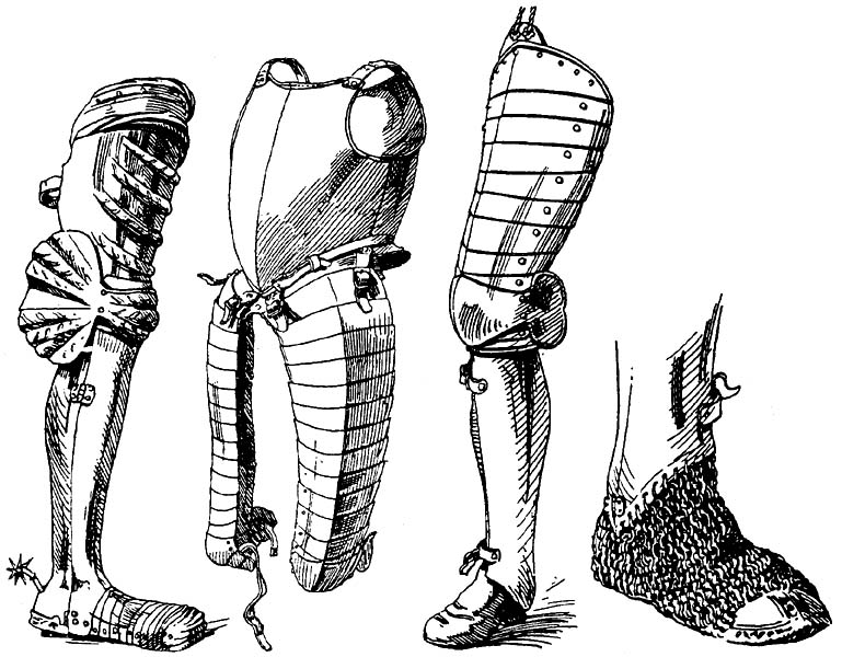 Different Types of "Geschübe"